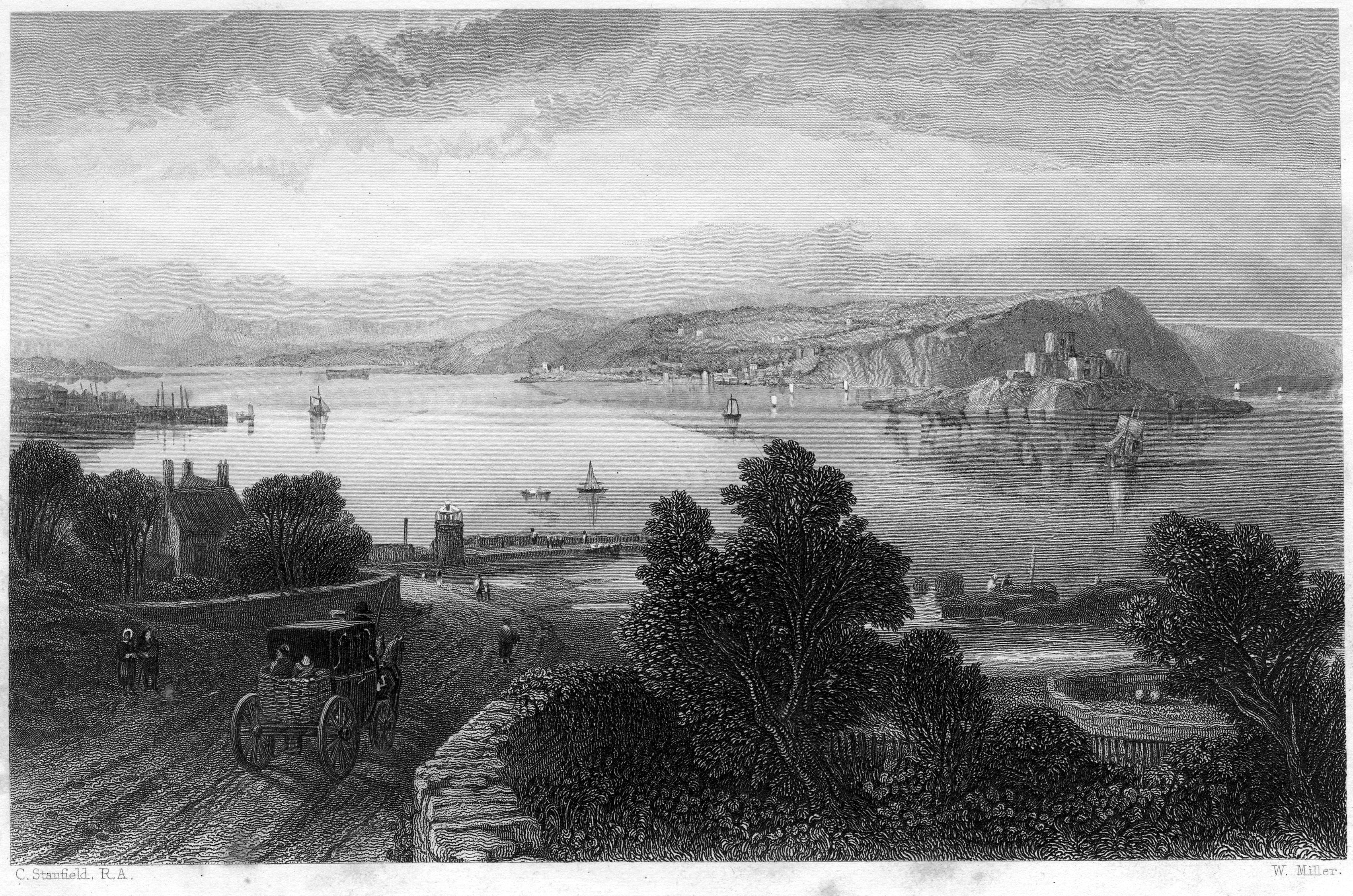 The Queensferry from the South-east engraving by William Miller after C Stanfield, published in Waverley Novels vol ii (Abbotsford Edition). Walter Scott. Edinburgh and London: Robert Cadell, Houlston & Stoneman 1842 - 1847